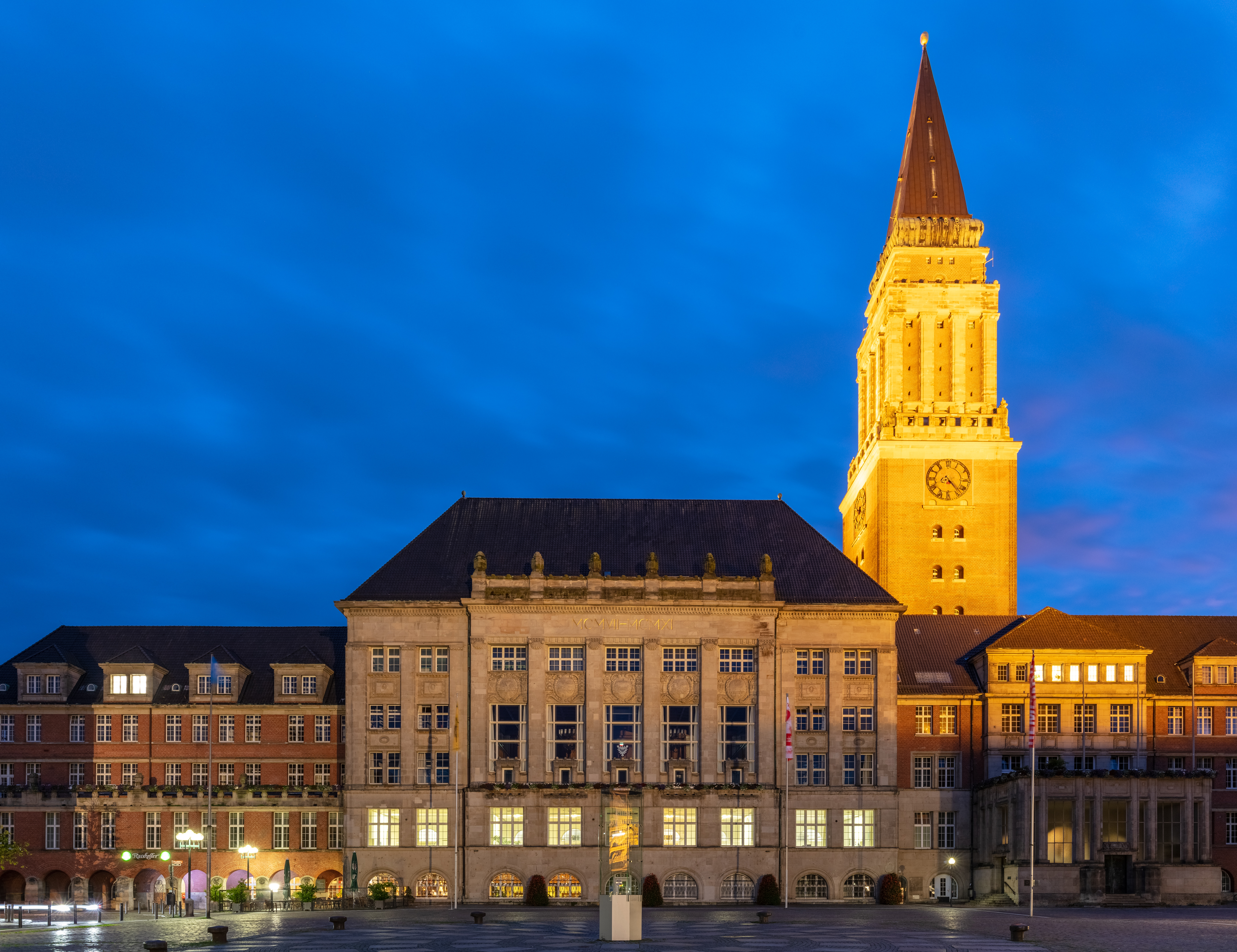 Town hall of Kiel, capital of Schleswig-Holstein, Germany. Its tower, which is 106 metres (348 ft) high, is one of the city landmarks.